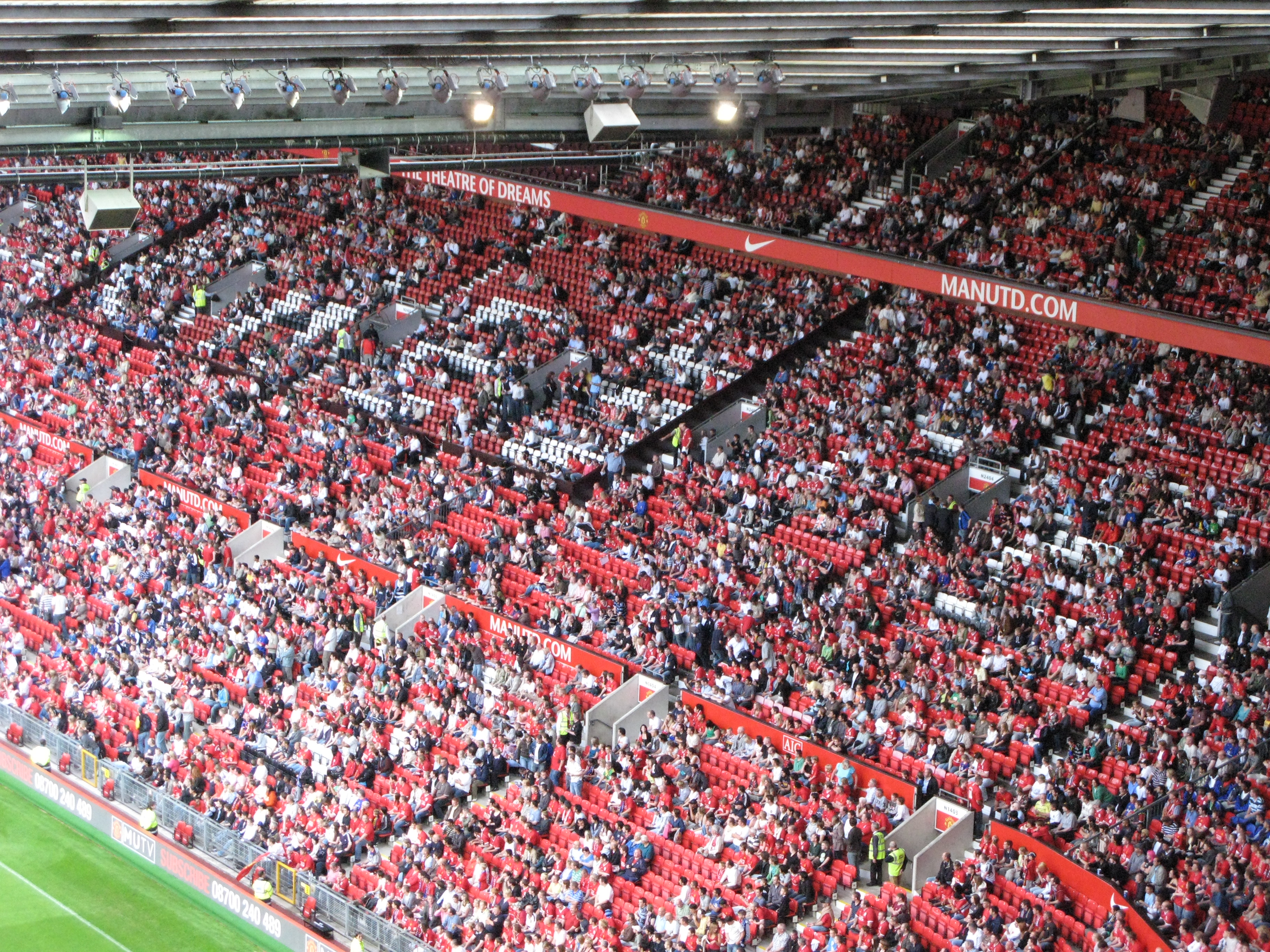 Old Trafford 1/08/07 Pre Season Friendly v Inter Milan